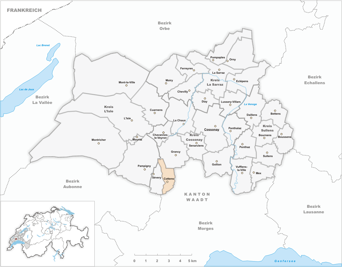 Municipality Cottens